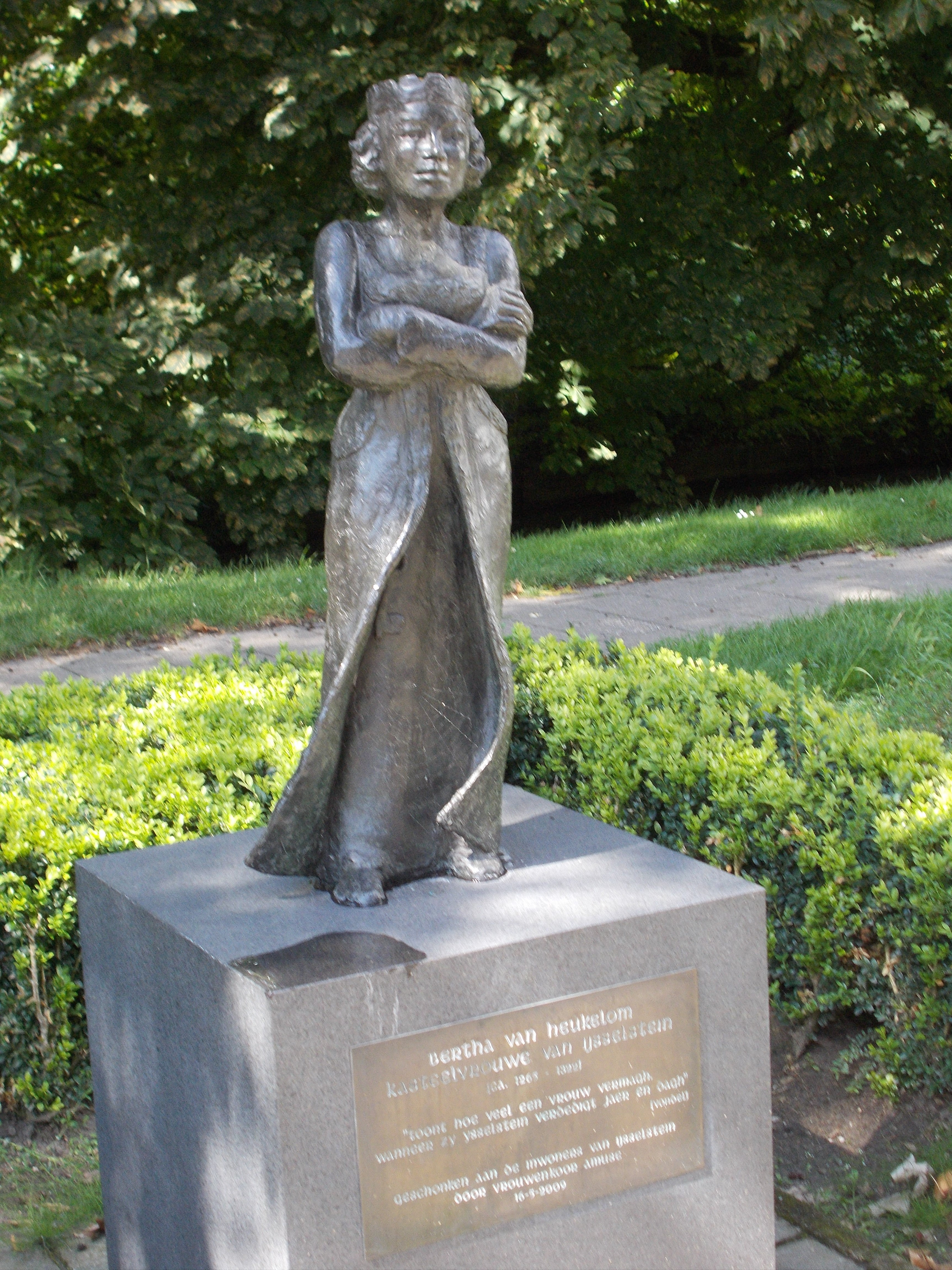 Sculpture Kronenburgplantsoen, near the castle tower of IJsselstein